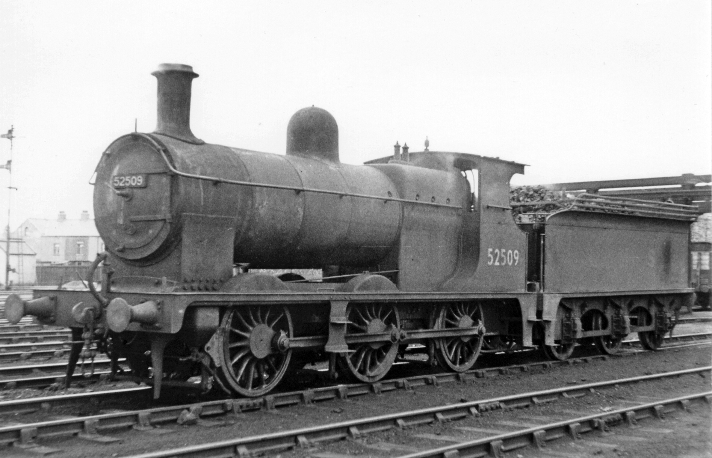 Furness Railway 0-6-0 at Workington Shed, 1951View SE in the Shed yard near the ex-LNW Workington station is LMS No. 12509, one of the last surviving ex-Furness Pettigrew 0-6-0s, built 1920 as class D5 No. 32, becoming LMS No. 12509 and withdrawn as BR No. 52509 in 11/56.